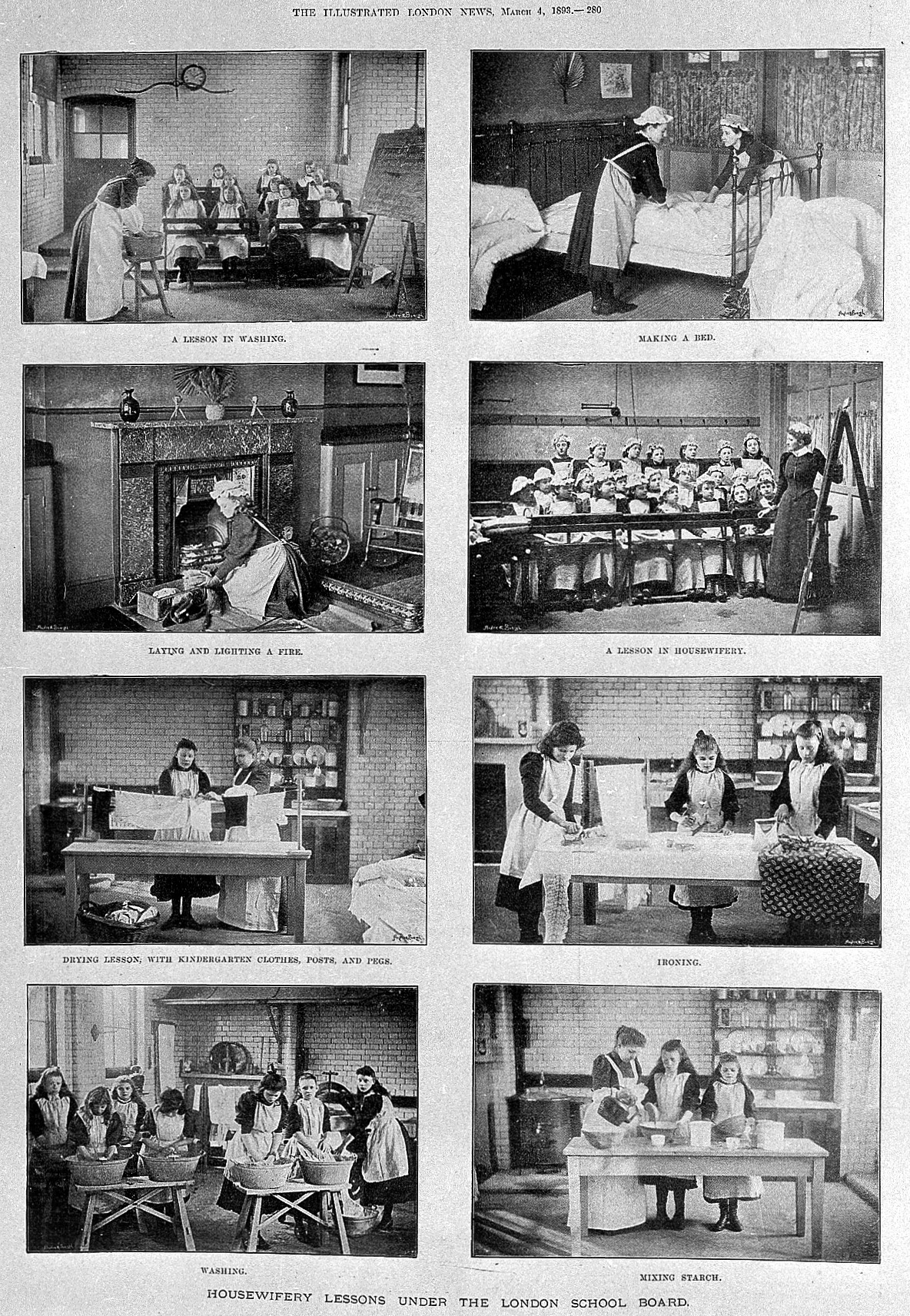 Housewifery lessons under the London School Board. General Collections Keywords: Child Welfare